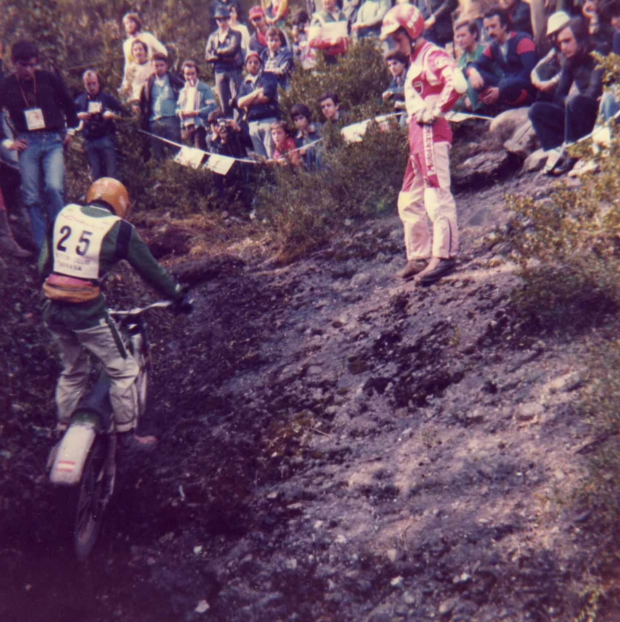 Franz Trummer with his Puch at XII "Trial de Sant Llorenç" in Matadepera (Catalonia) on March 12, 1978. It was the 5th race of the Trial World Championship. He finished 27th.This was the section #14, near "La Barata" (close to the road from Matadepera to Talamanca).